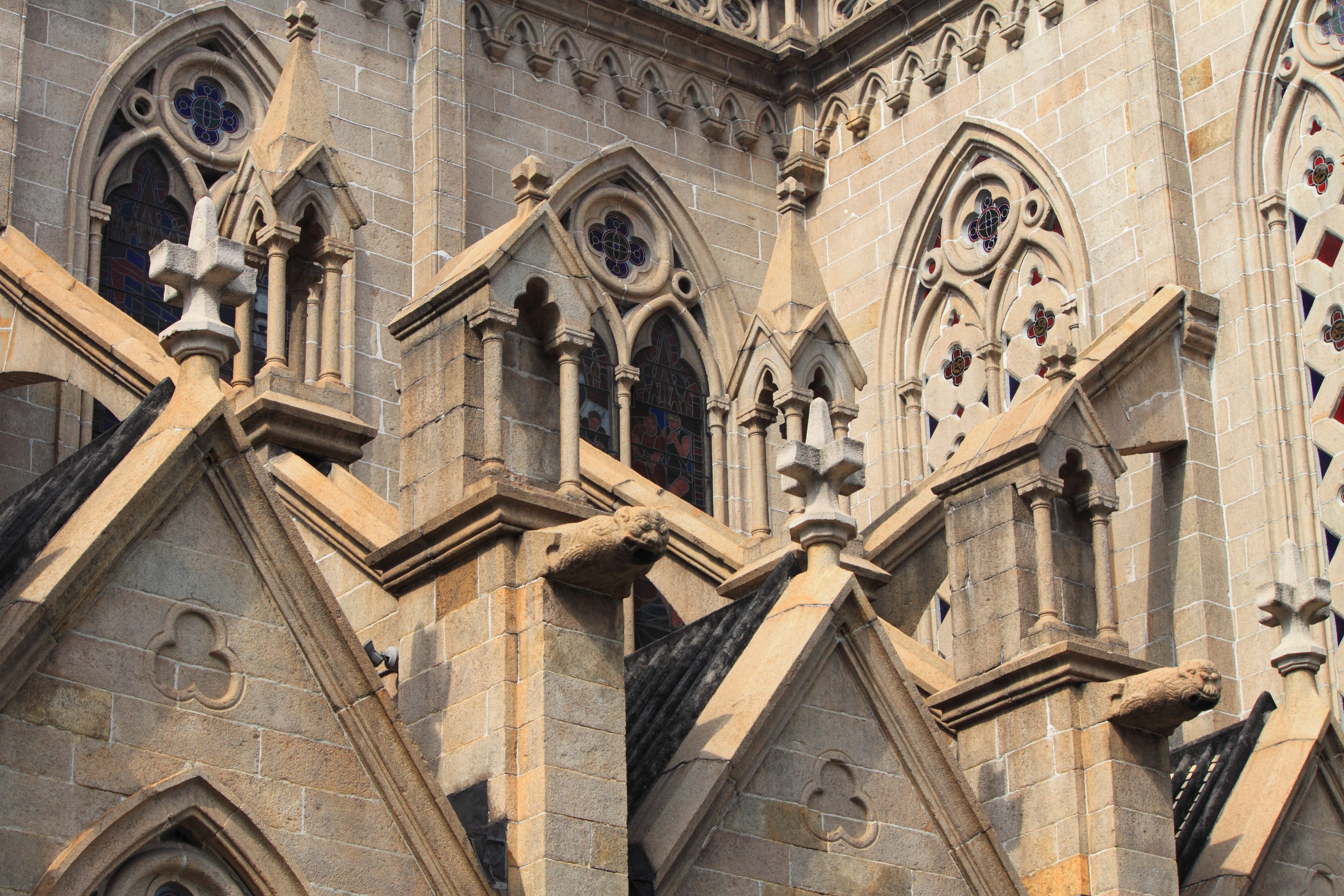 Sacred Heart Cathedral of Guangzhou，in Guangzhou, Guangdong, China.